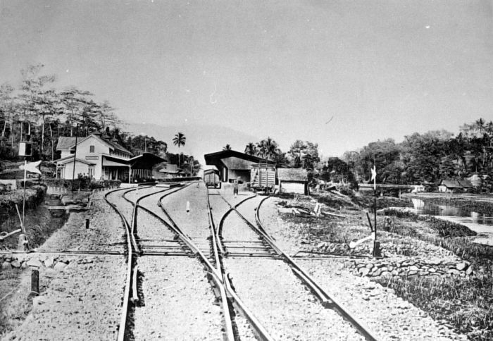 Railwaystation in Tuntang of the Dutch Indies Railway Company, Central-Java